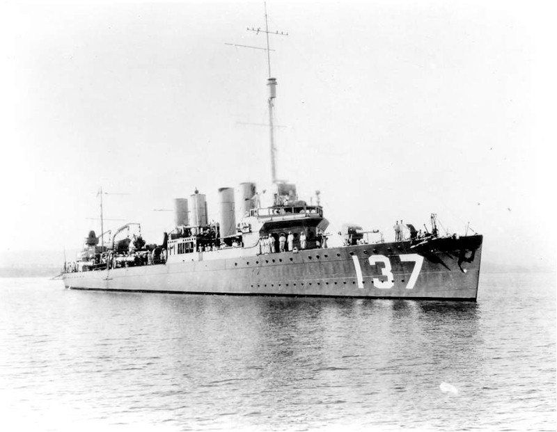 The U.S. Wickes-class destroyer USS Kilty (DD-137) in January 1920.